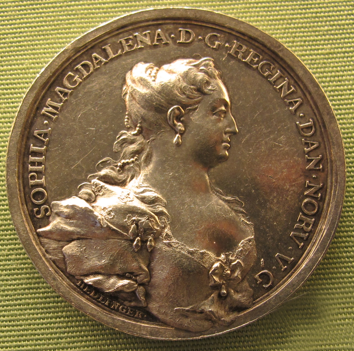 Portrait of Sophia Magdalena, Queen of Denmark (1700-1770)